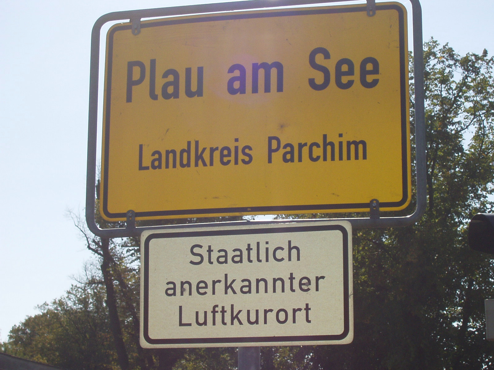 Citysign at the border of Plau am See, Germany